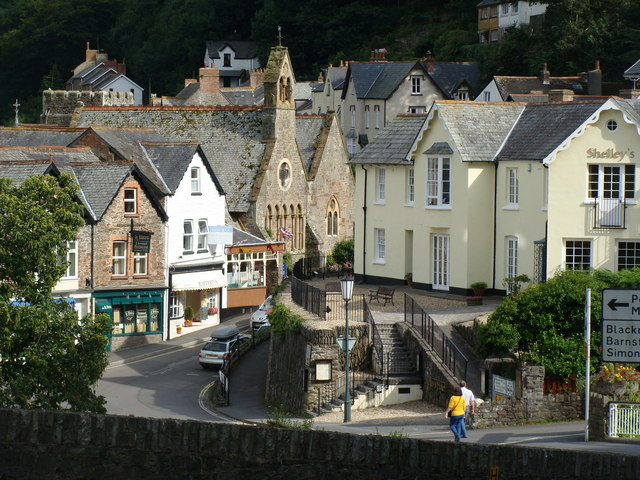 Lynmouth Church and village buildings